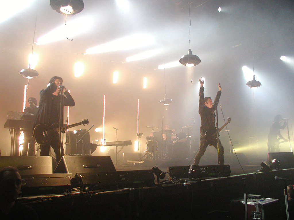 Nine Inch Nails perform live in Munich, Germany on March 28, 2007. Band members, from left to right: Alessandro Cortini (keyboards), Jeordie White, Josh Freese (drums), Trent Reznor (arms extended), Aaron North (holding microphone)